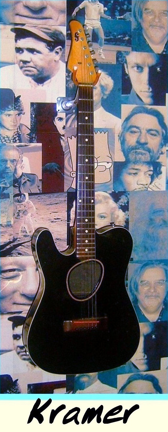 these are a few of my lefties I have bothered to photograph